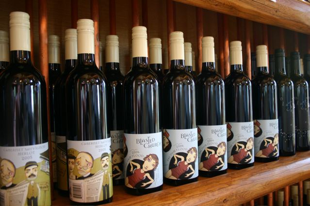 Bottles ready for purchase at "Blasted Church" winery in Penticton British Columbia, Canada.